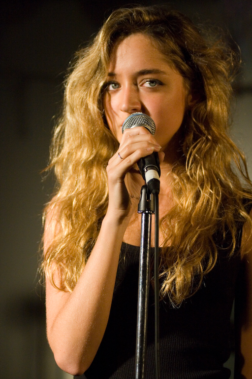 Clémence at the Sellaband showcase "London Calling". This photo was taken on June 5, 2007 in The West End, London, England, GB, using a Canon EOS 400D Digital.